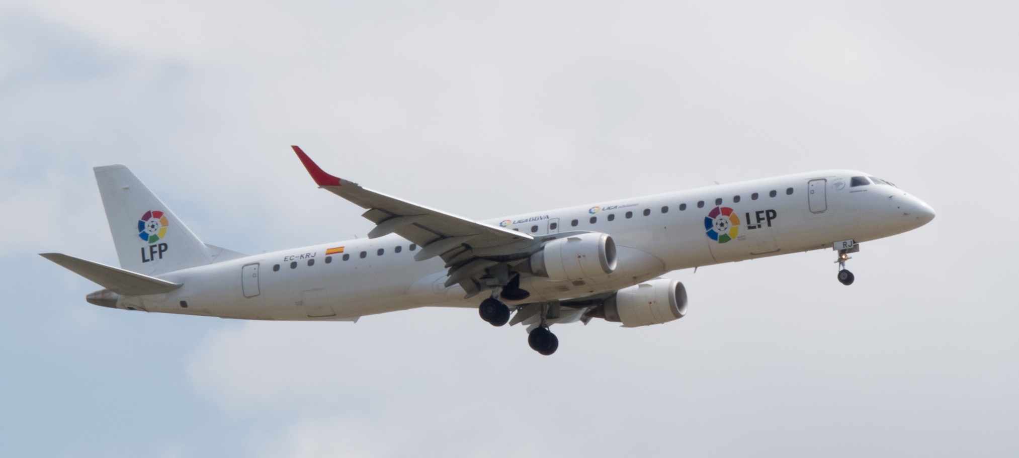 Airplane of the Liga de Fútbol Profesional; Embraer ERJ-190-200LR 195LR - Air Europa.